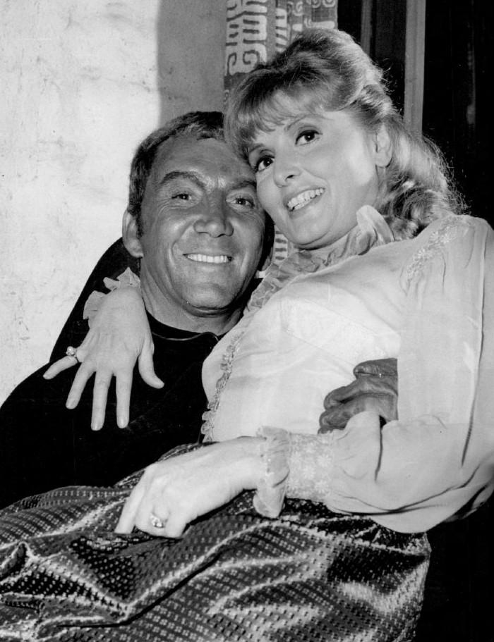 Photo of Cameron Mitchell as Buck Cannon and guest star Patricia Barry from the television program The High Chaparral.